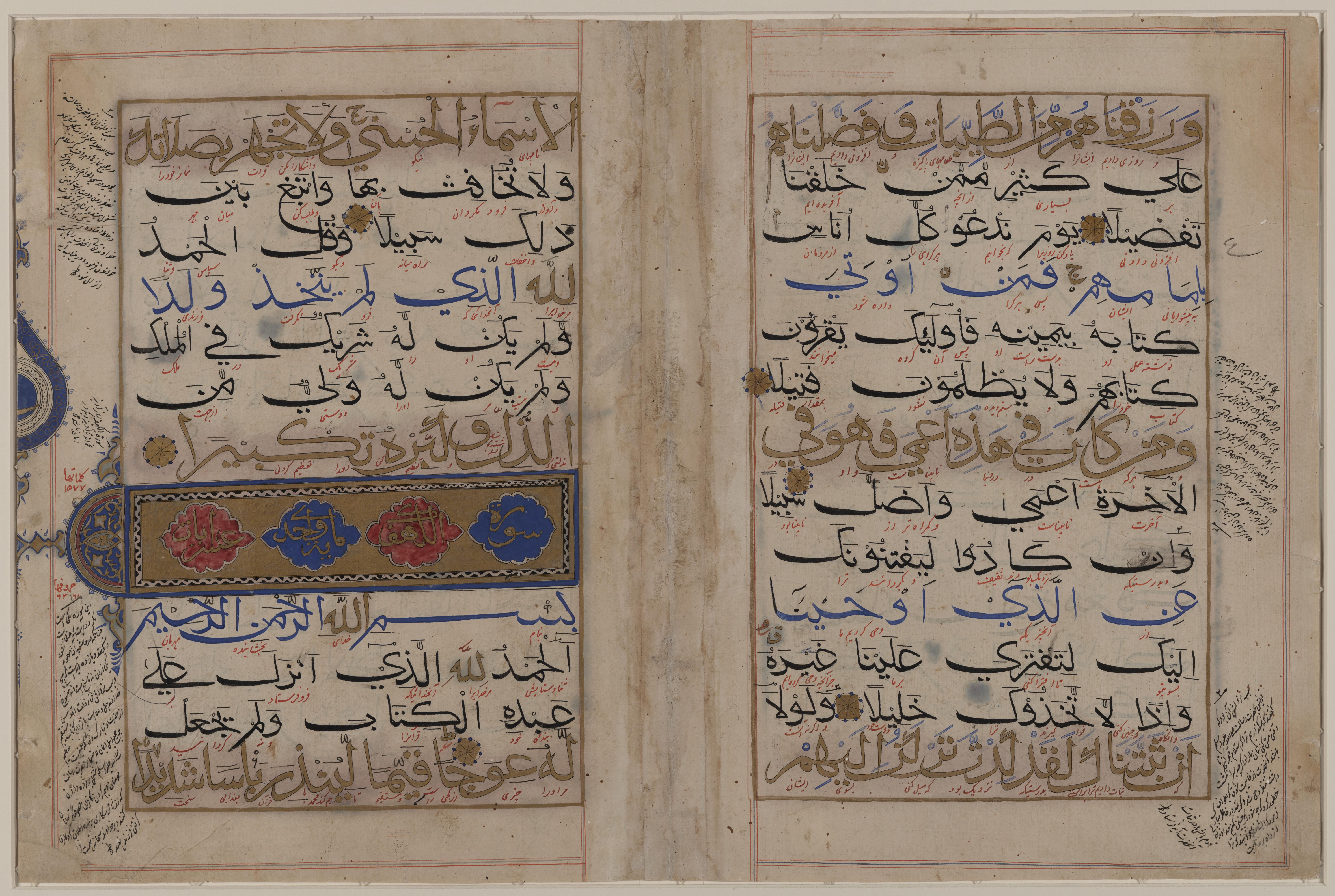 This folio contains, on the right side, verses 2-8 of Surat al-Kahf (The Cave), and, on the left side, verses 67-70 of Chapter 17 of the Qur'an, entitled Surat Bani Isra'il (The Children of Israel), also known as Surat al-Isra' (The Night Journey). The borders of the text include a commentary in Persian on a particular verse of the Qur'an. The fragment is written in a script known as bihari, a variant of naskh (cursive) typical of northern India after Timur's conquest and prior to the establishment of the Mughal Dynasty (ca. 1400-1525 A.D.). Bihari script is reconizable by its emphasis on the sublinear elements of the Arabic letter forms, thickened at their centers and chiseled like swords at their ends (James 1992b, 102). The term bihari derives from the province Bihar in eastern India, but it seems like its alternative spelling bahari describes the size (bahar) of the paper used for writing Qur'ans.